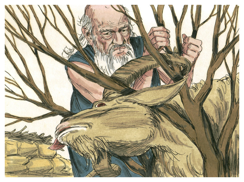 Biblical illustration of Book of Genesis Chapter 22